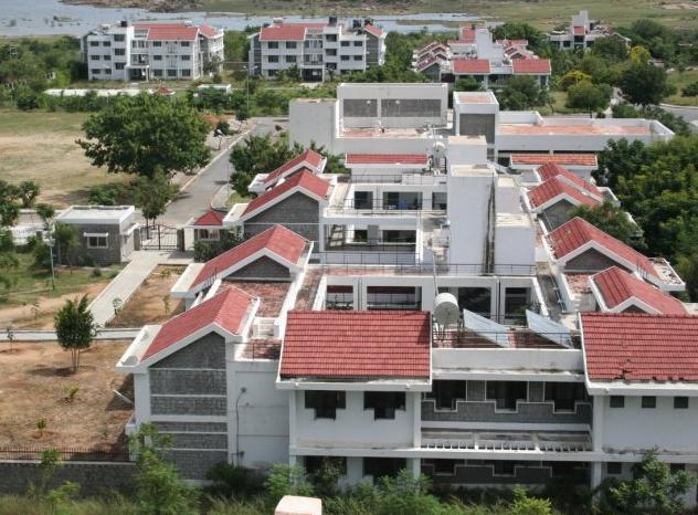 Boys Hostel of Nalsar University of Law, Hyderabad